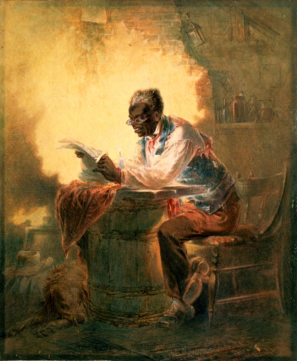 Black man reading newspaper by candlelight. Note: Man reading a newspaper with headline, "Presidential Proclamation, Slavery," which refers to the Jan. 1863 Emancipation Proclamation. Drawing; watercolor. Library of Congress, Prints & Photographs Division, LC-USZC4-2442 (color film copy transparency). Uncompressed archival TIFF version (4 MiB)], level color (pick white & black points), cropped, and converted to JPEG (quality level 88) with the GIMP 2.2.13.32.4.7